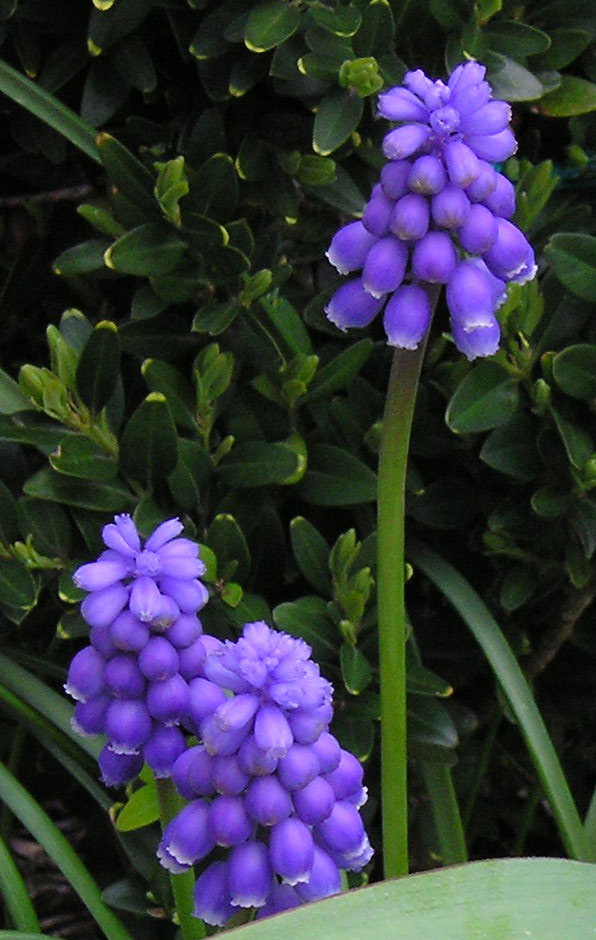 Muscari armeniacum (Blauwe druifjes)